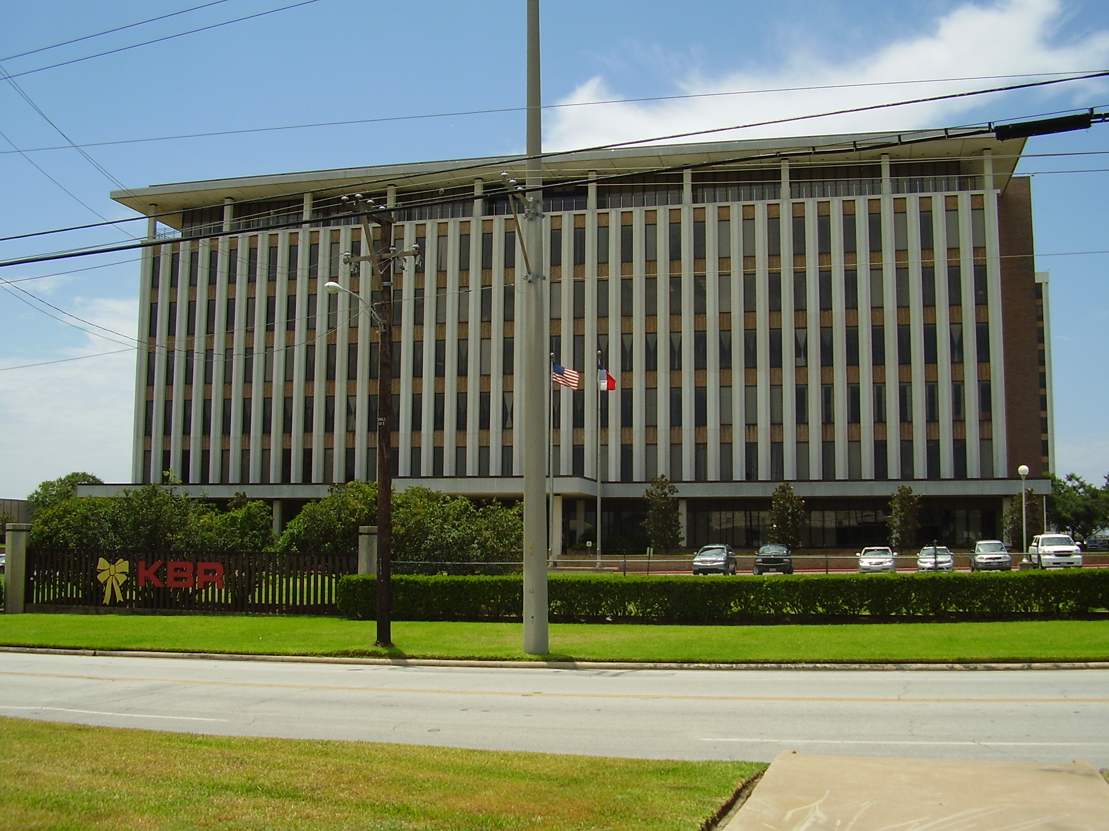 KBR offices on Clinton Drive - Formerly the headquarters of Brown & Root